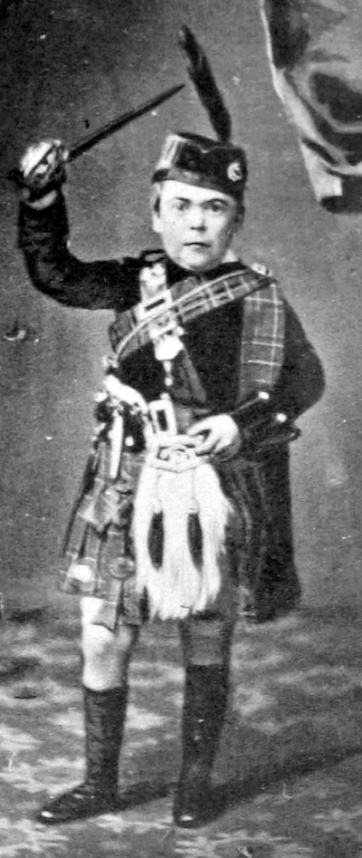 Salt Print of Charles Sherwood Stratton